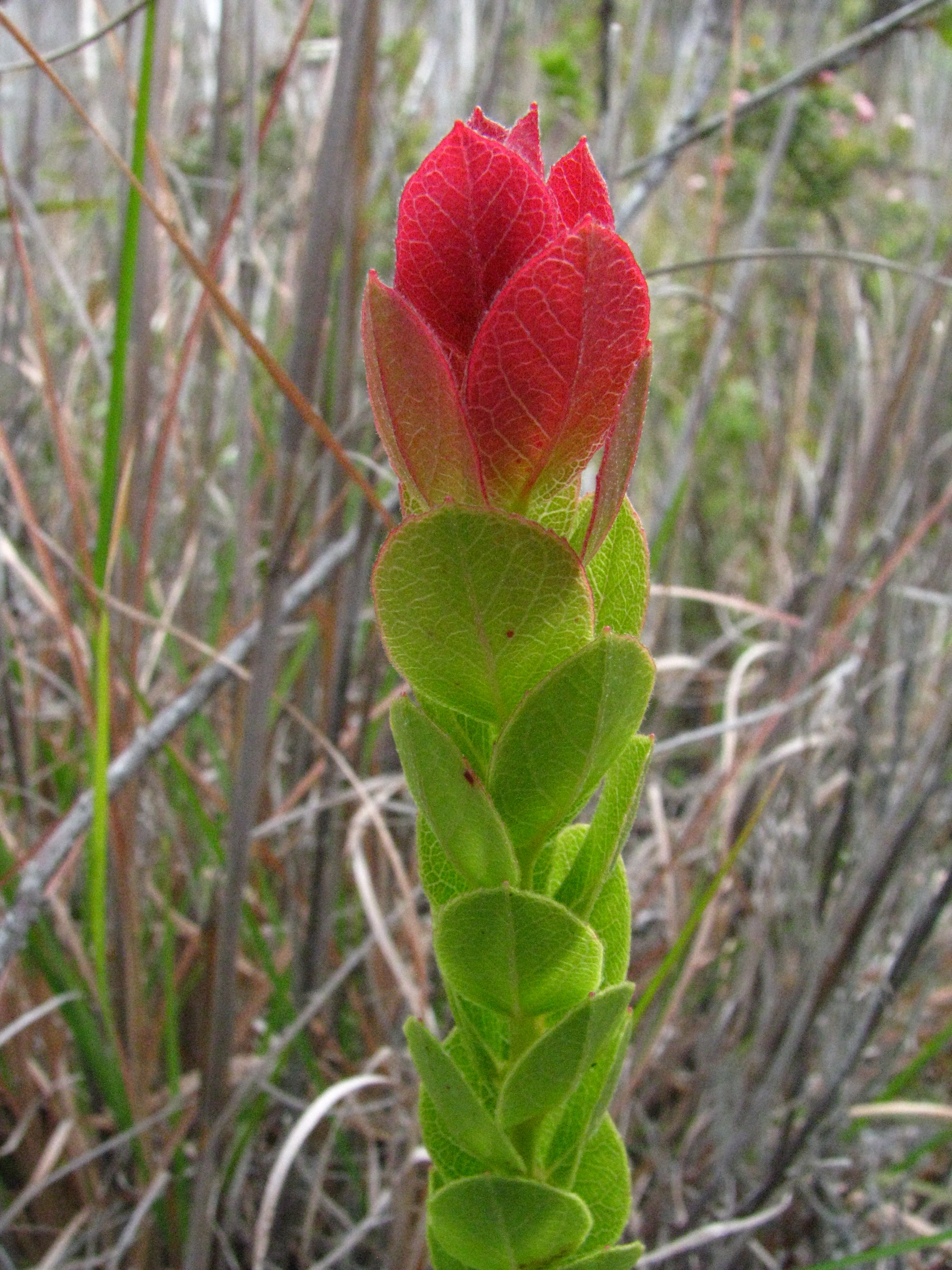 ʻŌhelo or ʻŌhelo ʻai Ericaceae Endemic to the Hawaiian Islands Hawaiʻi Volcanoes National Park, Hawaiʻi Island